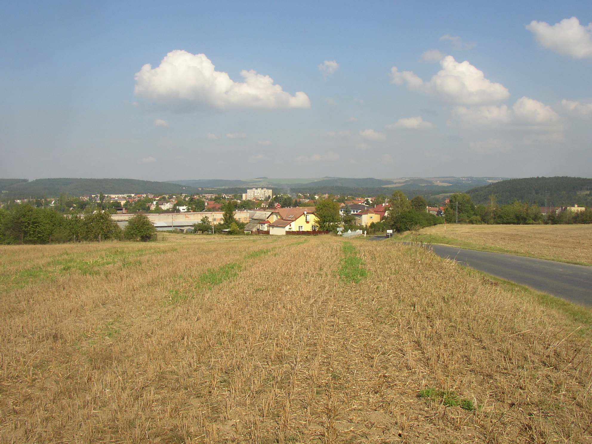 Chrást,Plzeň-City District, Czech Republic. A general view from the southwest, from Plzeň road.